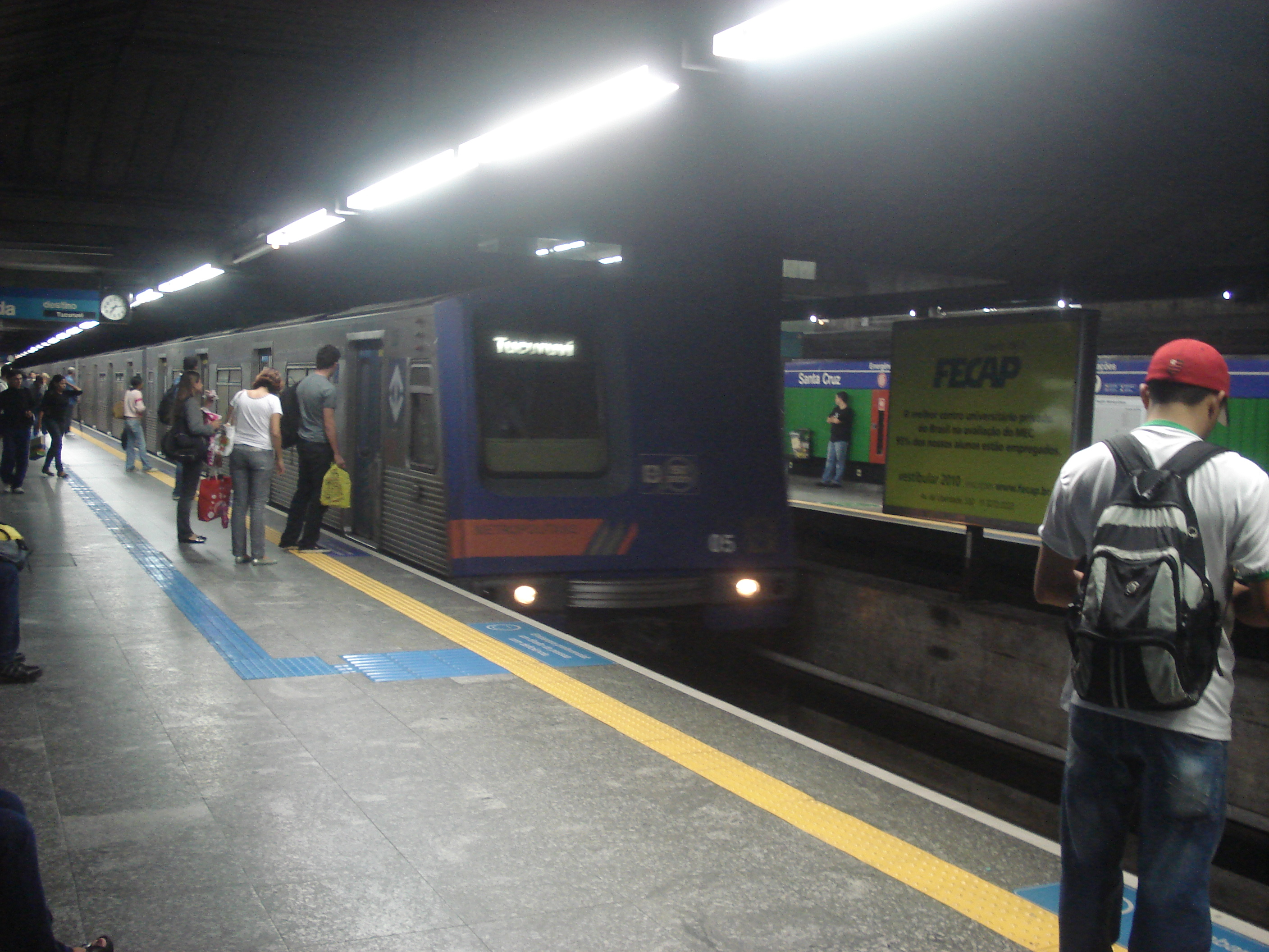 Budd-Mafersa train stopping at Santa Cruz Station, in São Paulo Metro Line 1 - Blue.